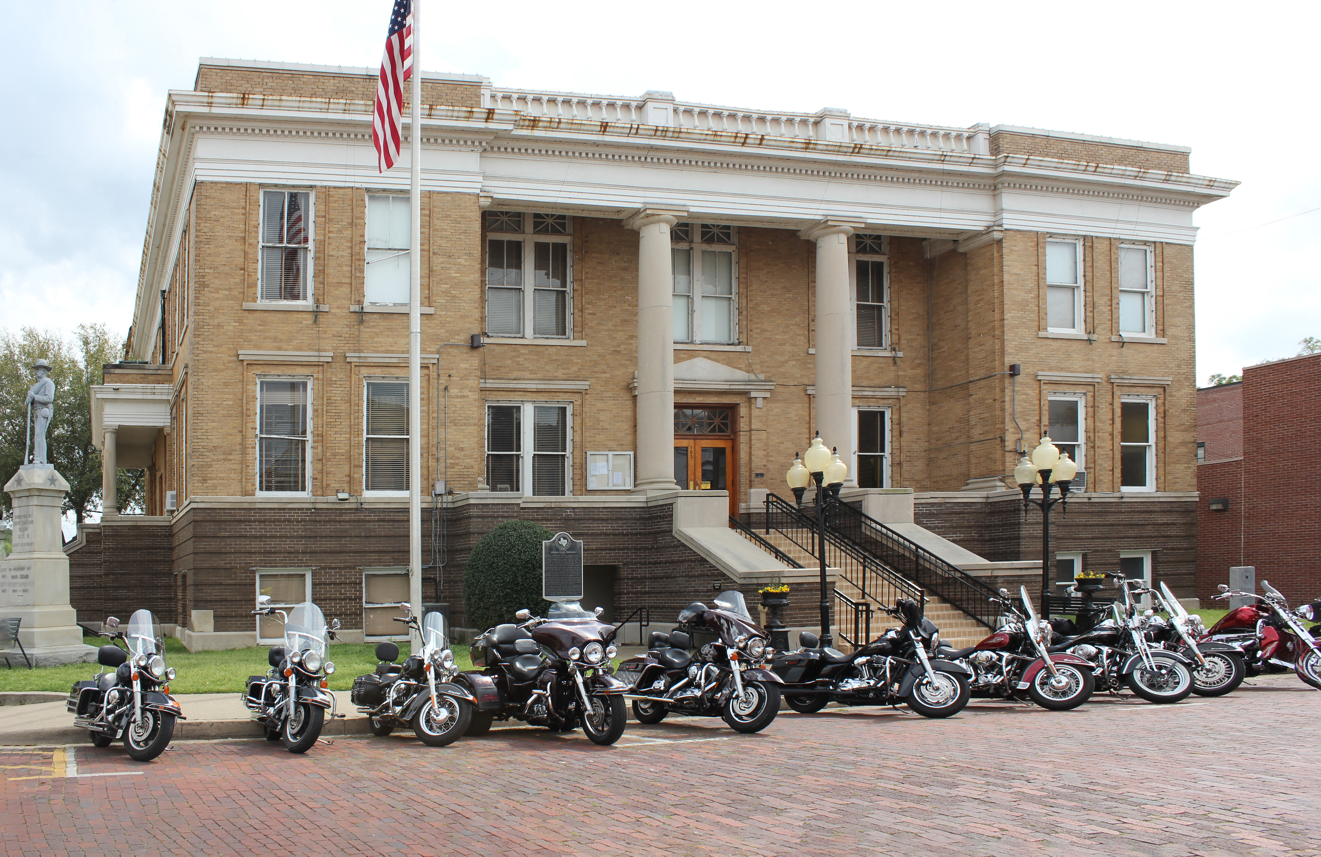 Date - 1912 Architect - Elmer George Withers Style - Texas Renaissance Material - Brick